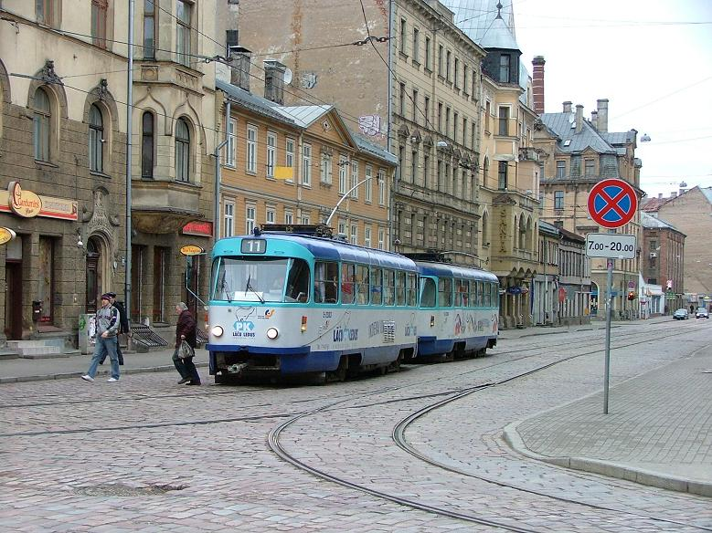 Tatra T3 - tram in Riga.